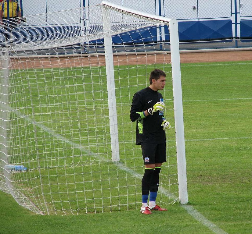 Romanian goalkeeper.